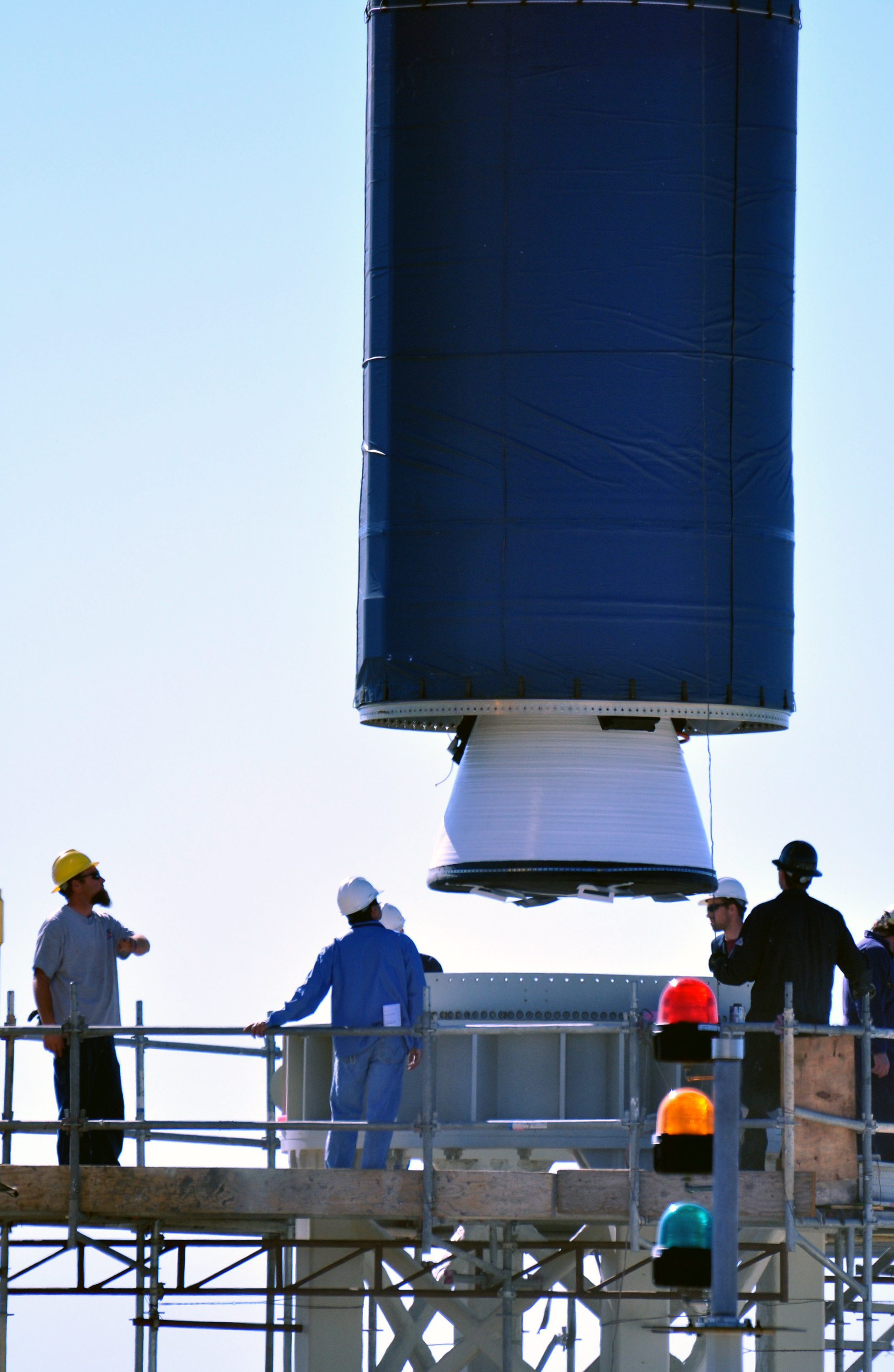 At complex 576E at Vandenberg Air Force Base in California, a crane lifts Stage 0 of the Taurus XL launch vehicle for the Orbiting Carbon Observatory from its transporter. The OCO is a new Earth-orbiting mission sponsored by NASA's Earth System Science Pathfinder Program. It is scheduled to launch Feb. 23.